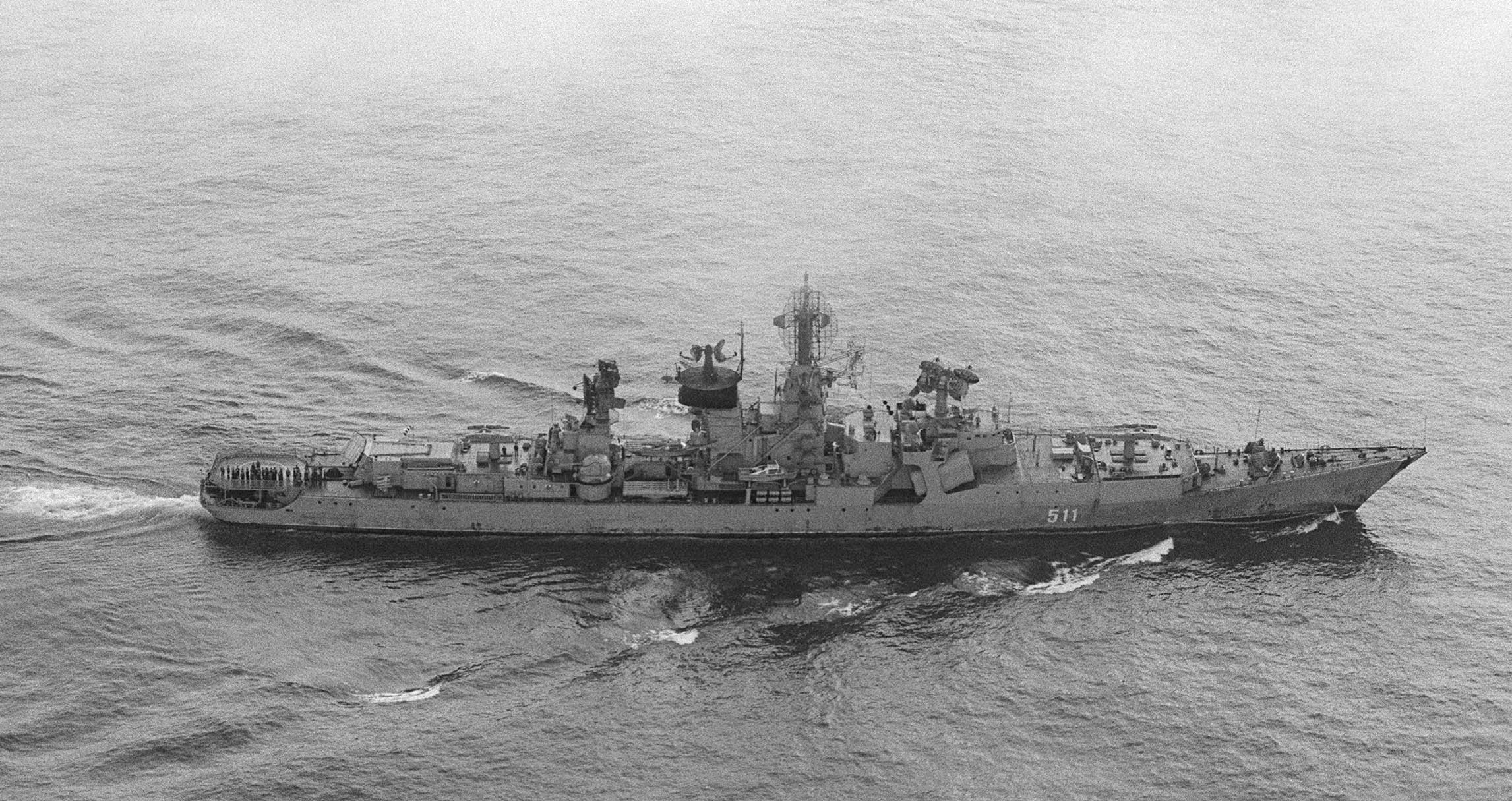 An aerial starboard beam view of the Soviet Kresta II-class guided missile cruiser taken from a P-3 Orion patrol aircraft approximately 750 miles west of Midway Island. The cruiser is operating with nine other Soviet ships and is moving in a northeasterly direction. This is the largest Soviet task force to enter Central Pacific waters.